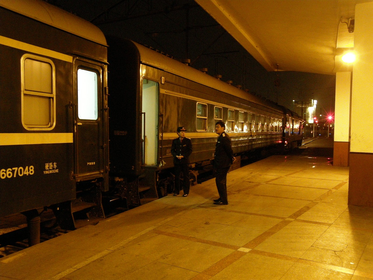 china railway harbin station